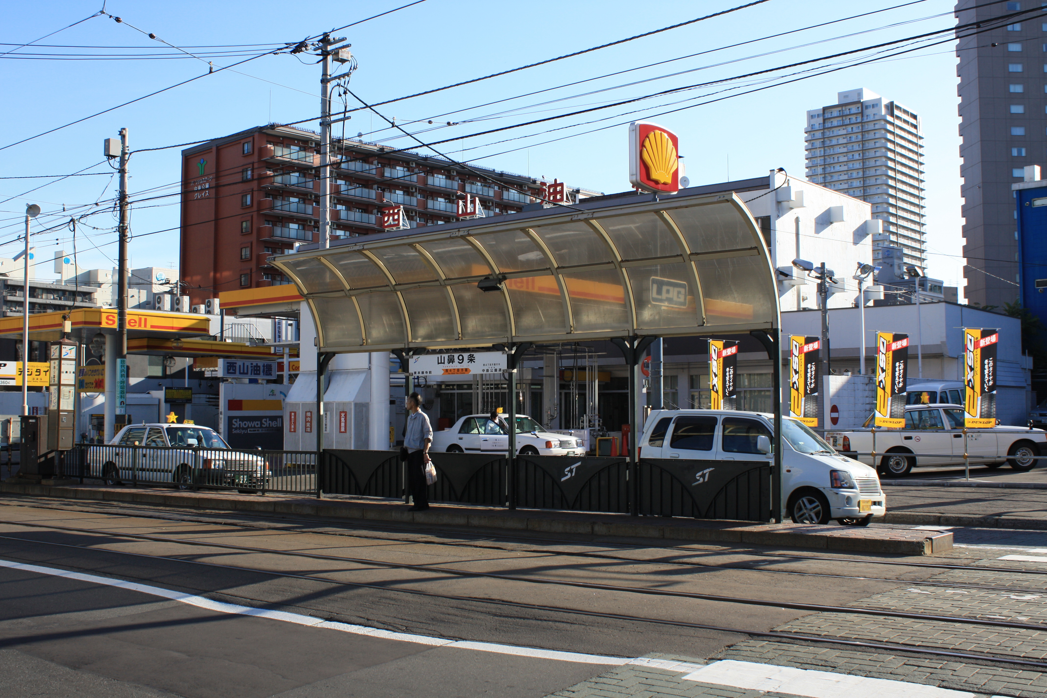 Yamahana ku jō Station in Sapporo, Hokkaido, Japan. It is the station on the Sapporo Streetcar Yamahana Line operated by Sapporo City Transportation Bureau.